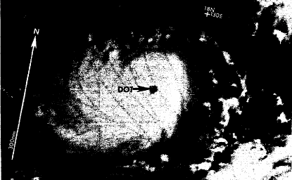 Satellite image of Typhoon DOT, 1985.